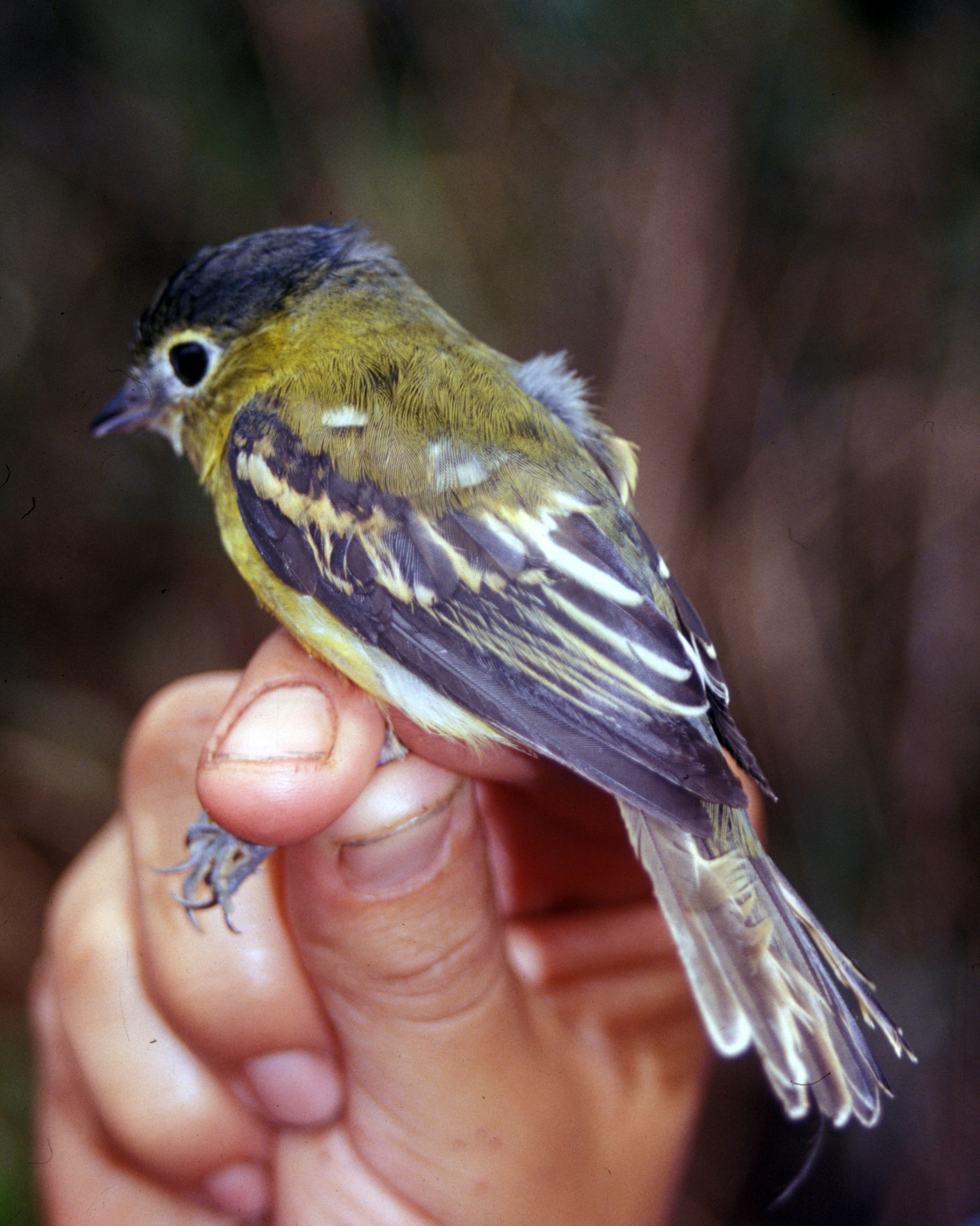 male Yellow-cheeked Becard (Pachyramphus xanthogenys). Originally mistakenly identified as Pachyramphus versicolor.